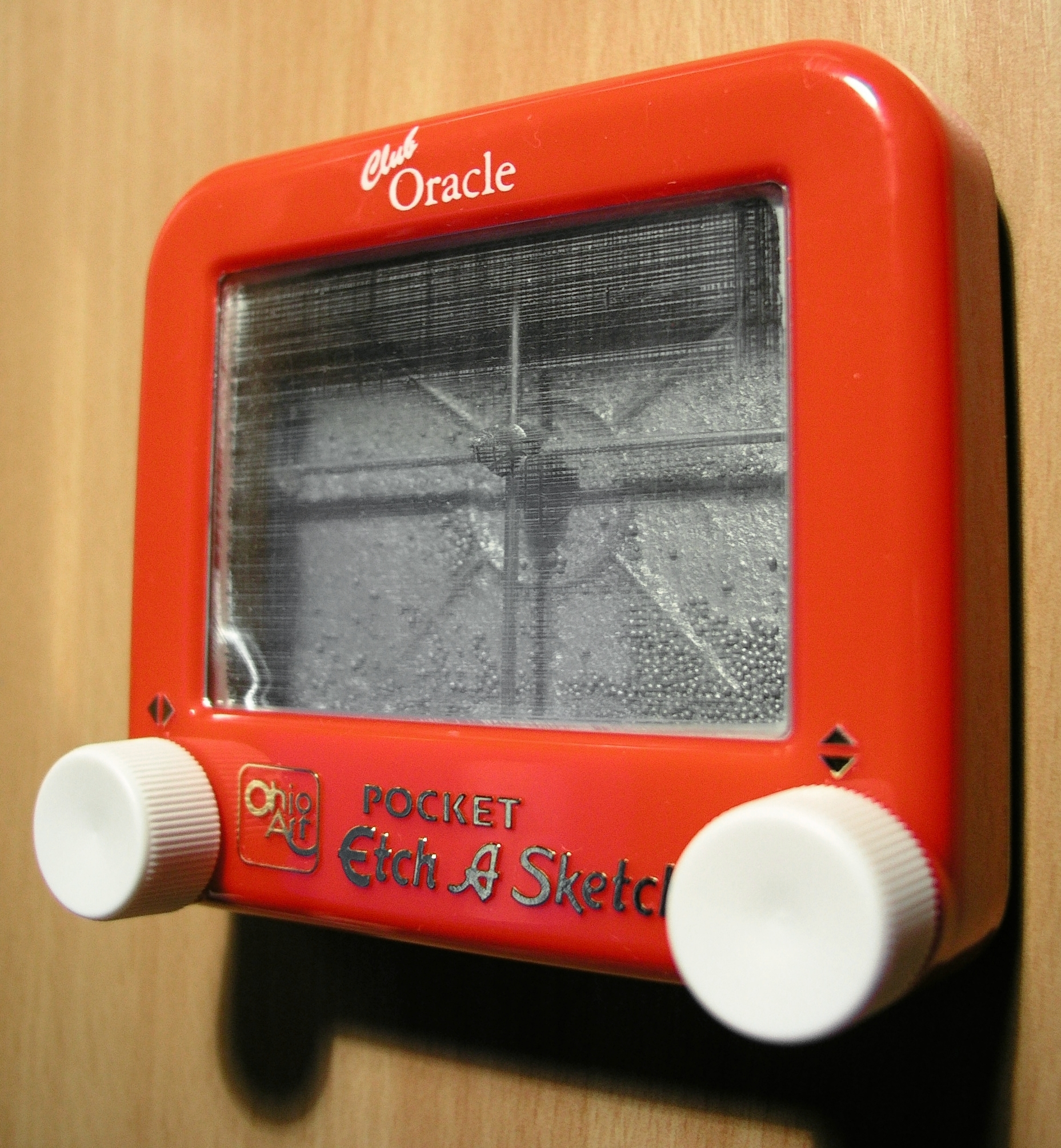 Etch A Sketch with most of the aluminum powder removed, showing stylus, mechanisms, and styrene beads.